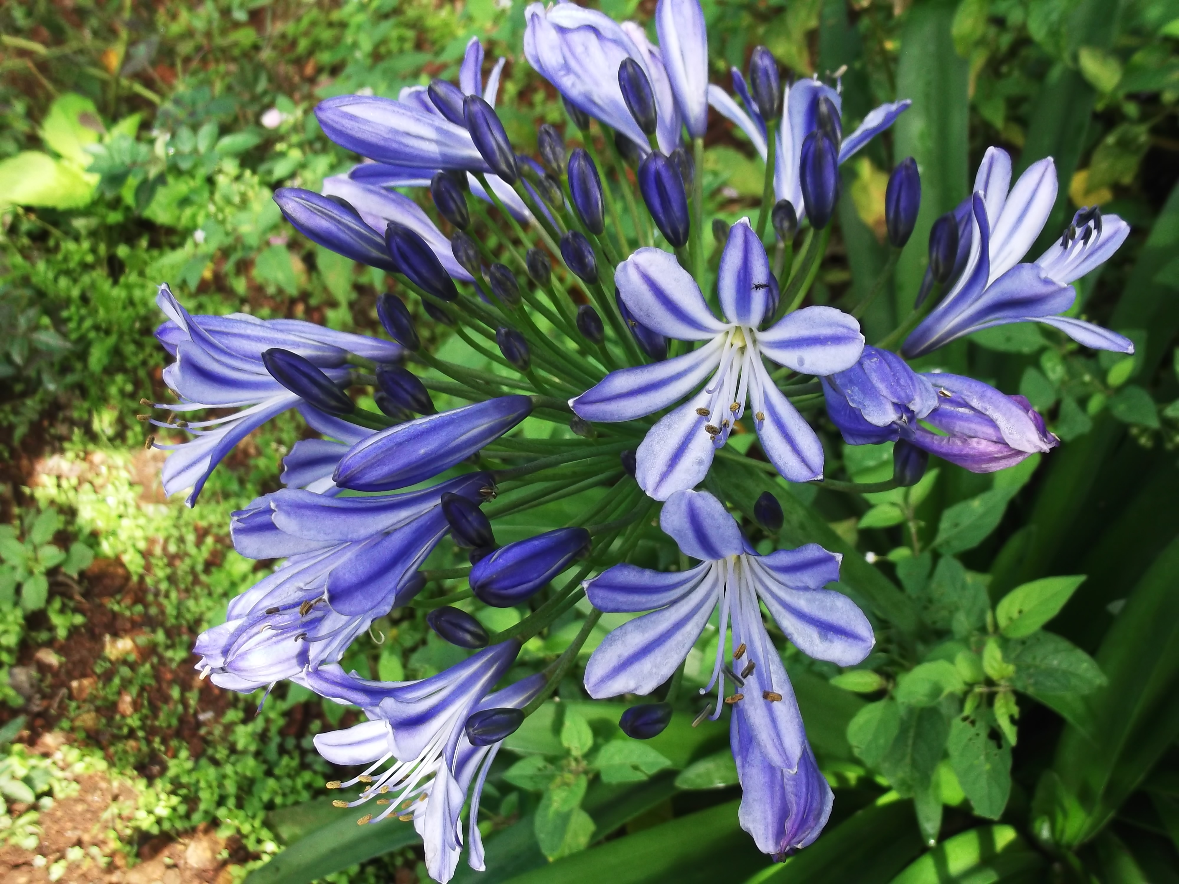 African lily-umbels,funnel shaped flowers,pale porcleain blue with darker center and margin.